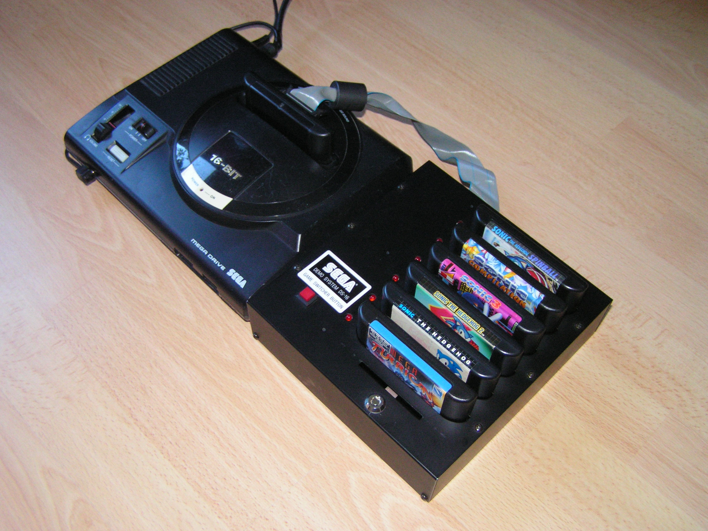 My own Sega Mega Drive Demo System DS-16, this unit lacks the holder in metal above the games that keeps the cartridges secure from being stolen.